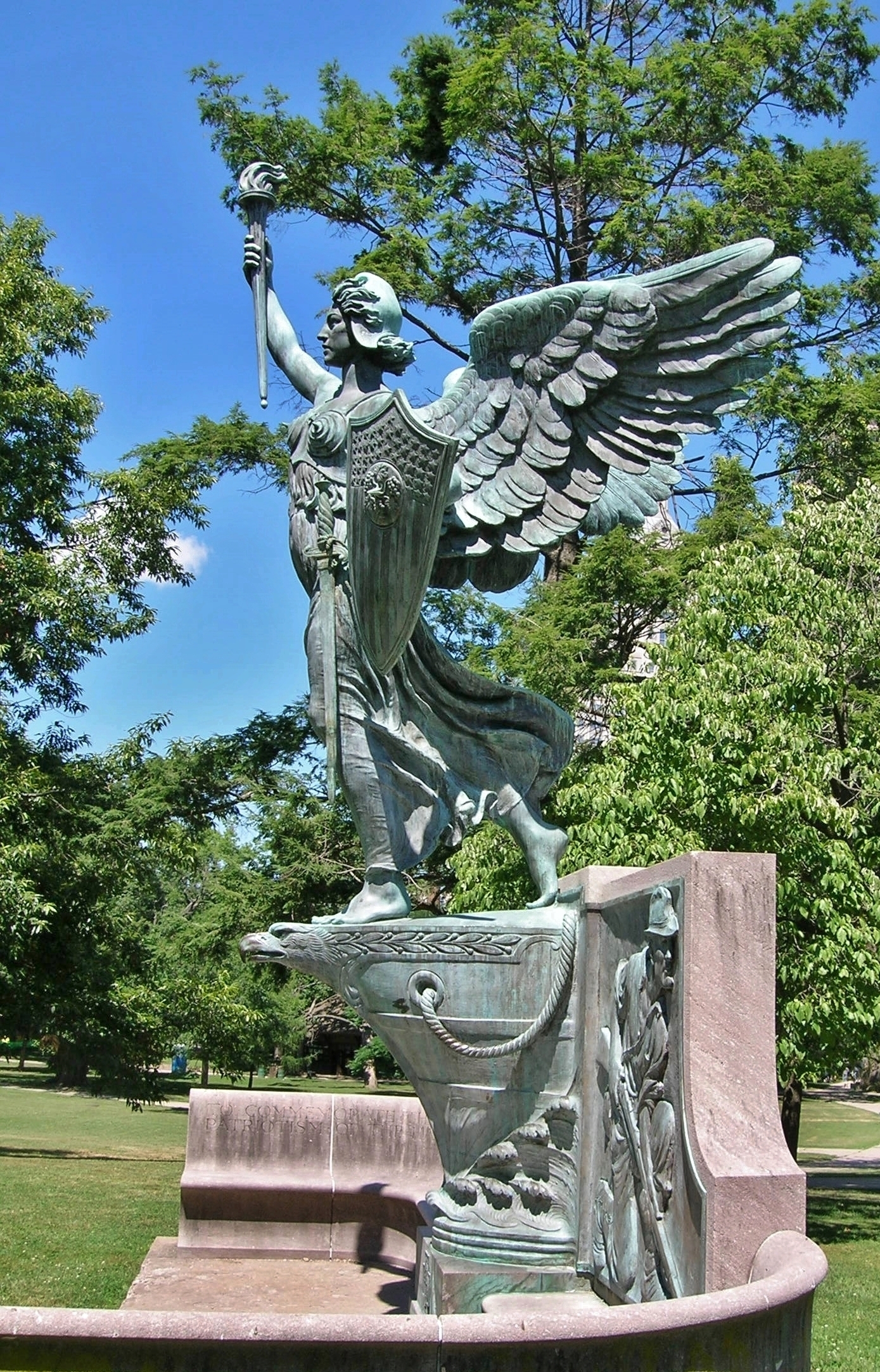 Spanish-American War Memorial titled "Spirit of Victory" by Evelyn B. Longman, 1926. Located in Bushnell Park, Hartford, Connecticut. This photo shows the old patina before the statue was refinished.